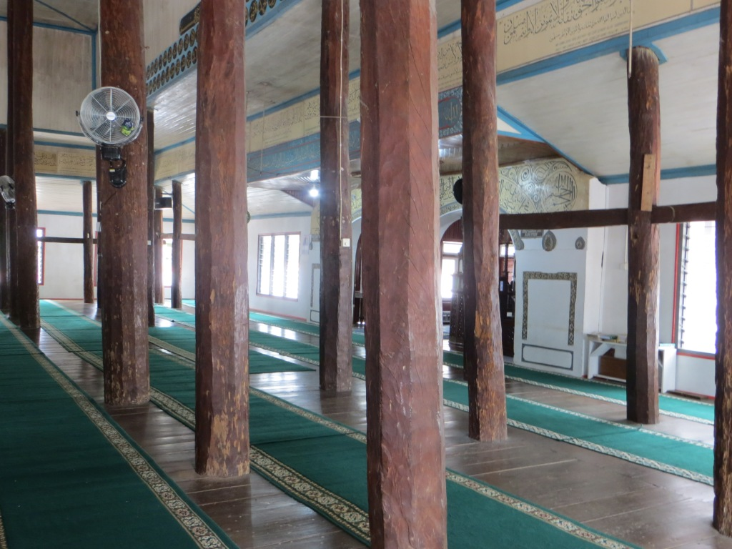 Masjid Raya Lima Kaum